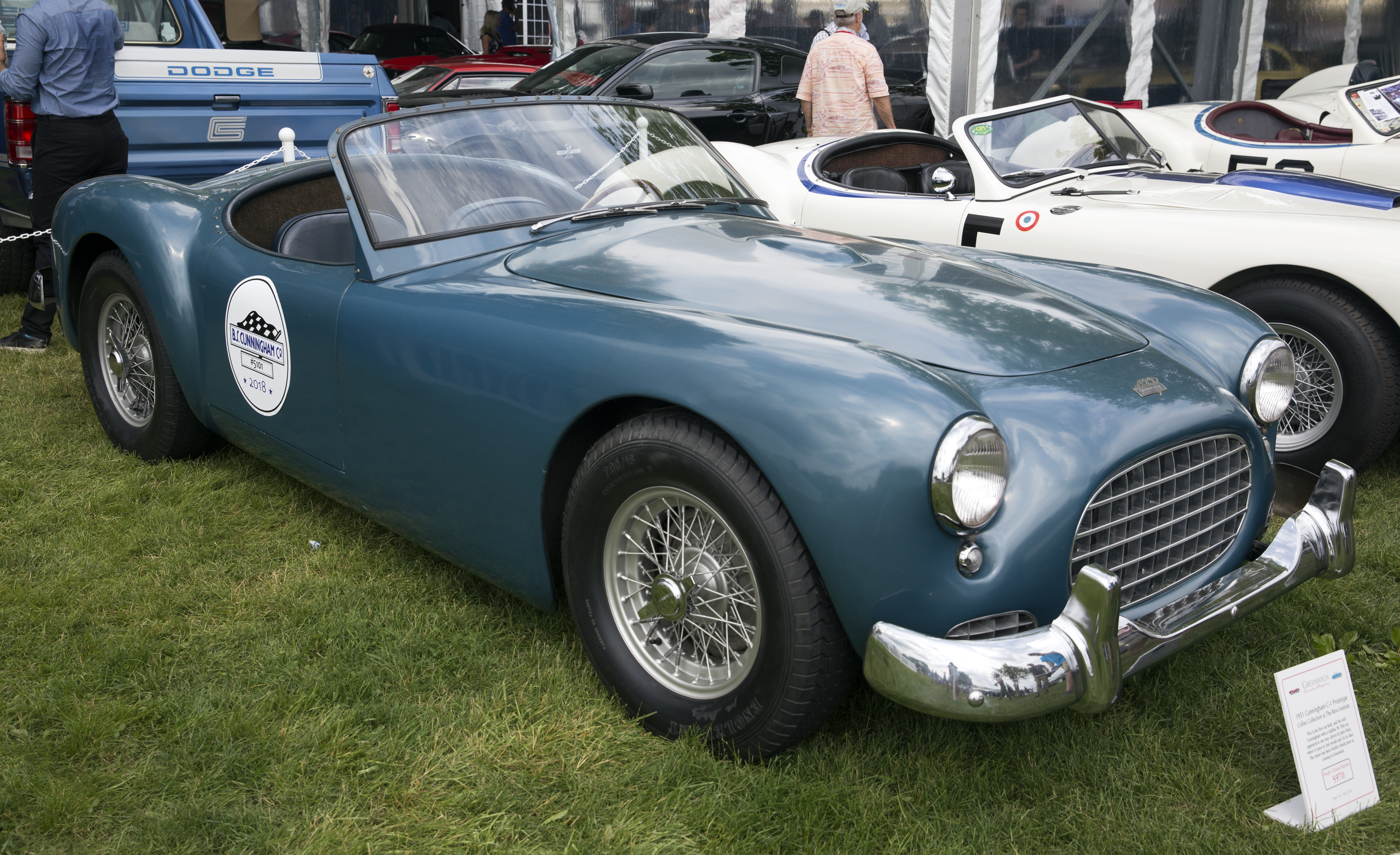 The Cunningham C1, displayed at the 2018 Greenwich Concours d'Elegance. This one was raced once, by John Fitch, but was also brought to Le Mans in 1951 to provide more testing opportunities for the drivers. It is the only Cunningham to have been equipped with a Cadillac V8 engine. Owned by Briggs Cunningham until 2006, after which it went to Miles Collier, whose collection is now with the Revs Institute in Florida. 33 of the 35 Cunninghams built were gathered for the 2018 Greenwich Concours d'Elegance. Some said that this is all the remaining ones, while others told me that one car was missing. Never mind, it was a more than impressive gathering and about a dozen or so C3s can be seen in the background here.